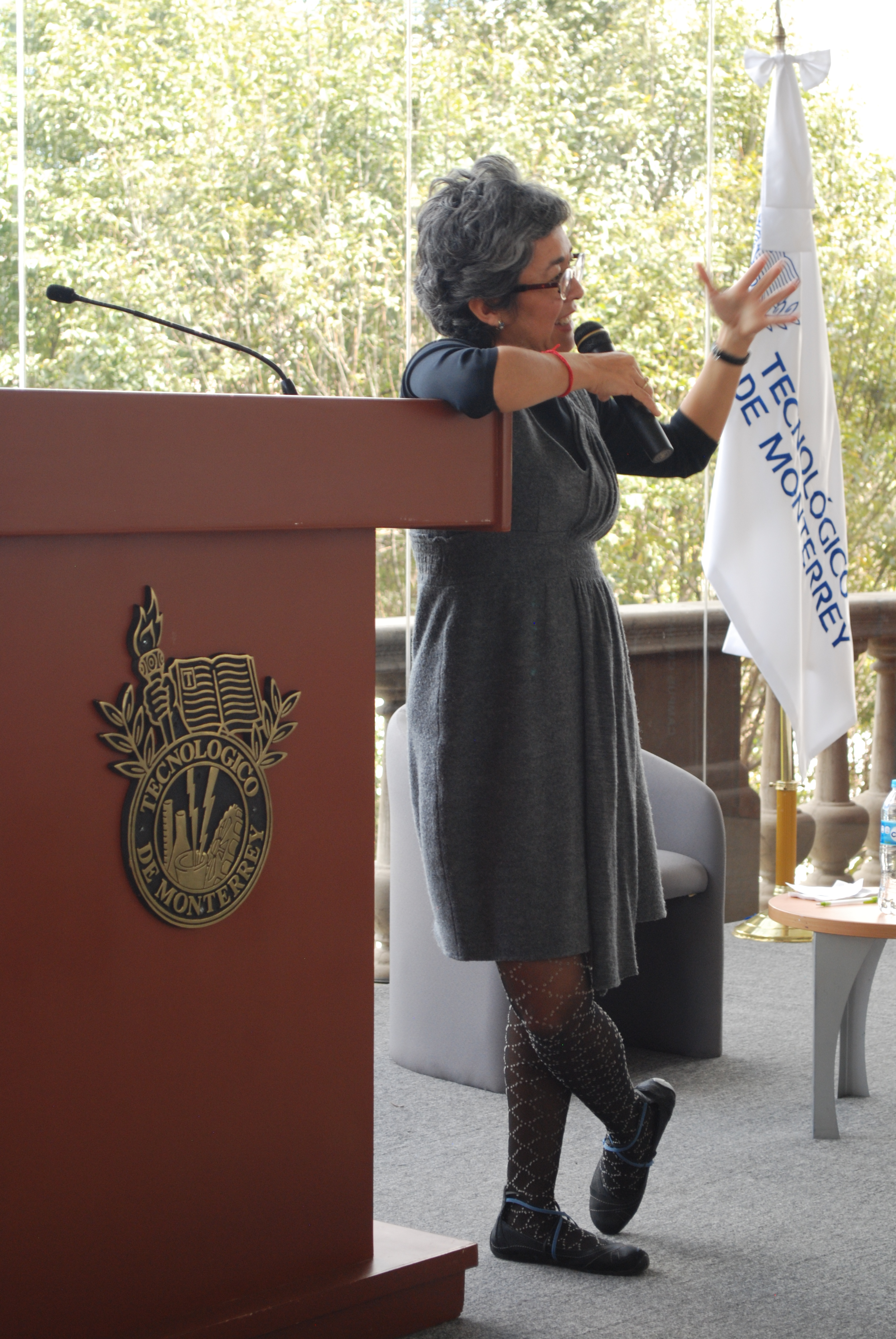 Cristina Rivera Garza presenting the book El Mal de la Taiga at Tec de Monterrey, Campus Ciudad de Mexico